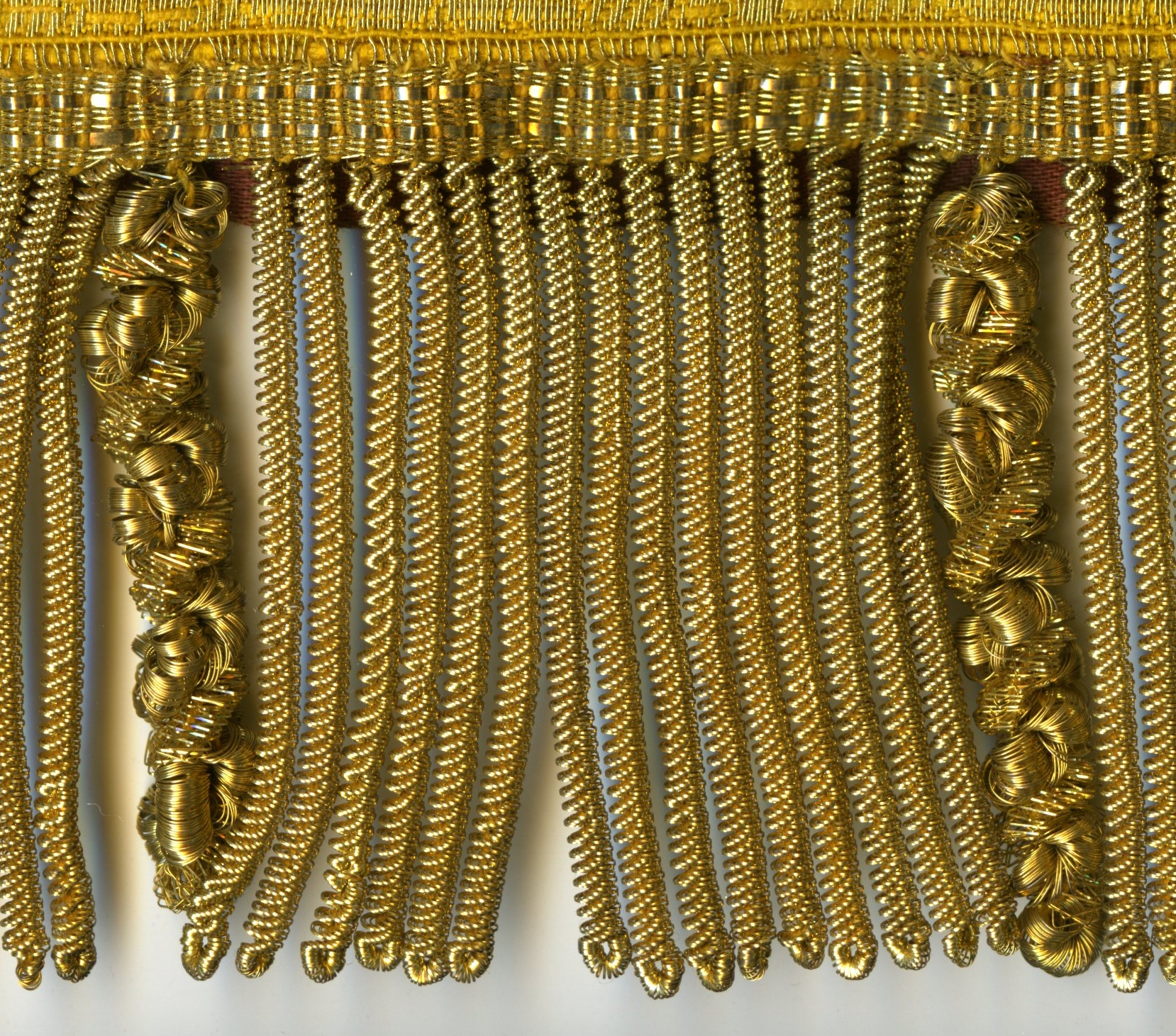 Golden fringe with bullion and twists